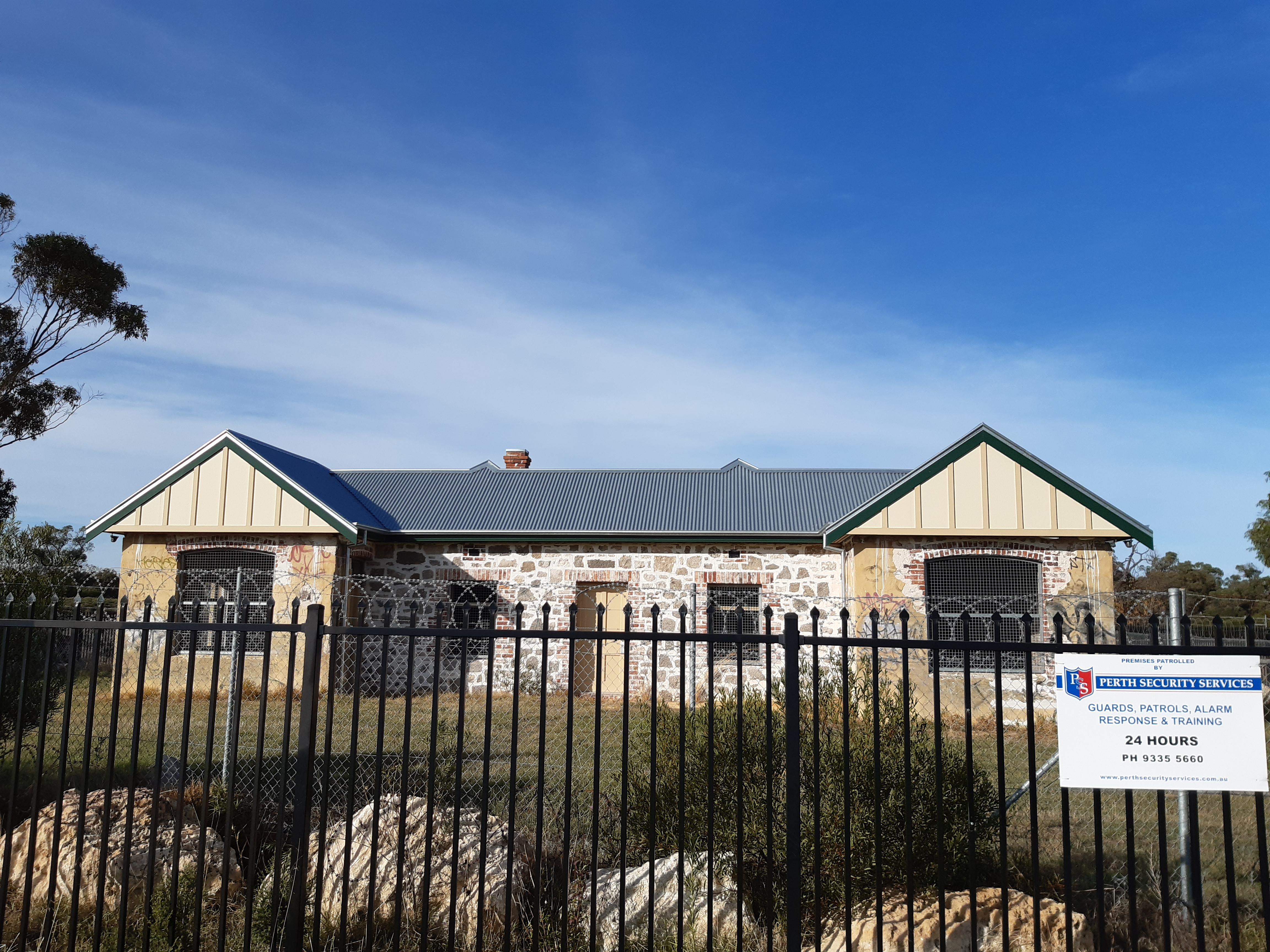 The heritage listed (Inherit # 2325) Chesterfield Inn, East Rockingham, Western Australia.